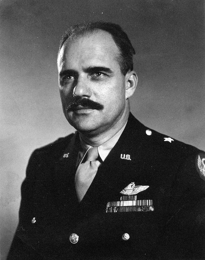 Brigadier General Jesse Auton, 65th Fighter Wing, 8th Air Force, USAAF